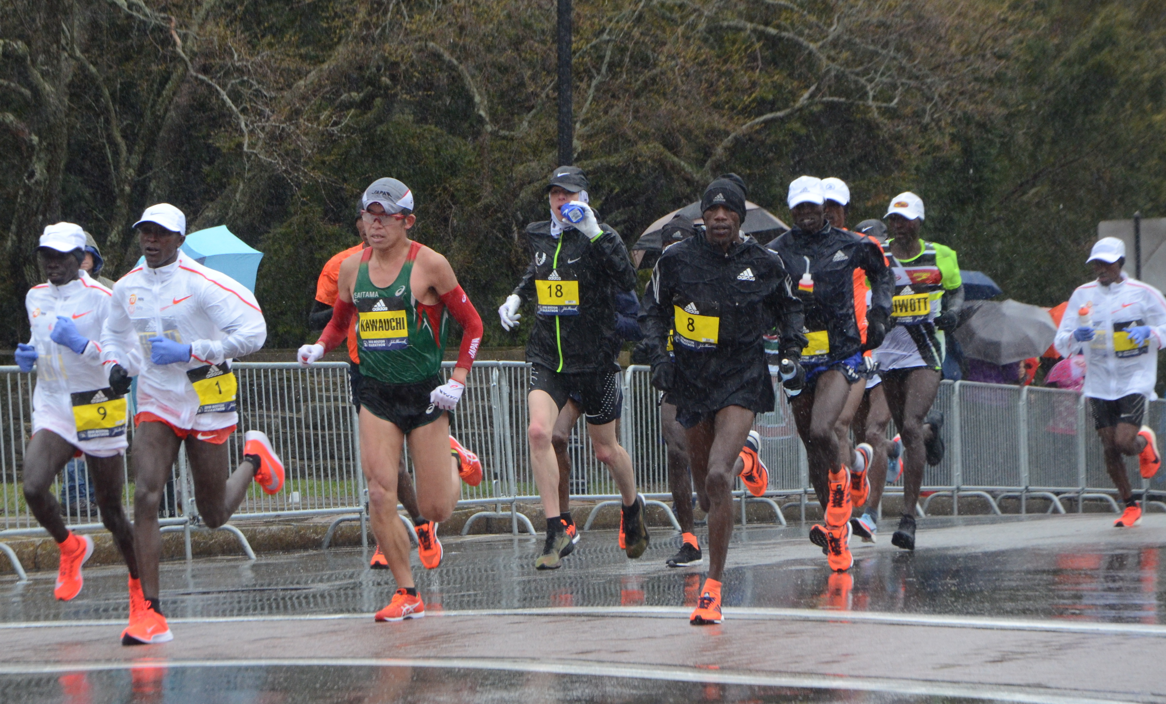 Lead men near halfway point of Boston Marathon 2018